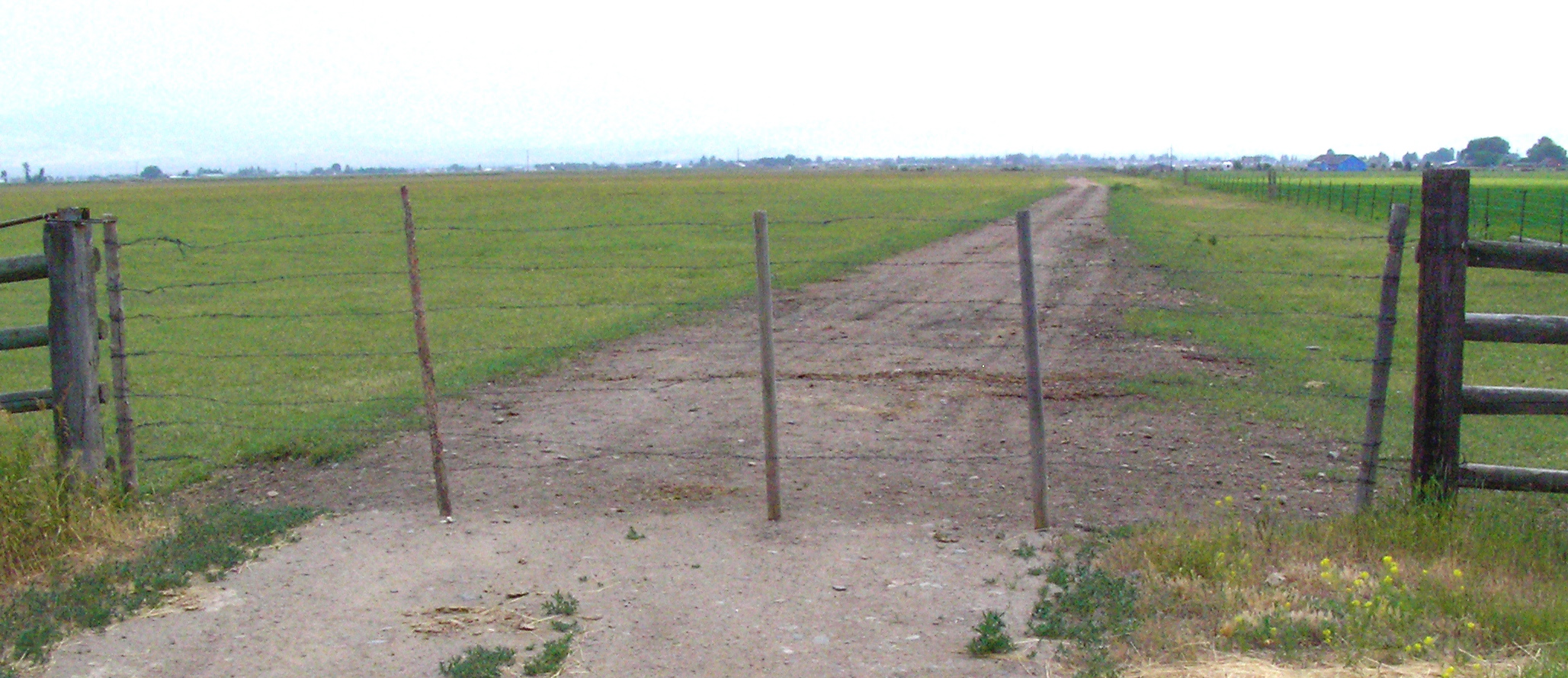 A wire gate, made of barbed wire, common on western cattle ranches